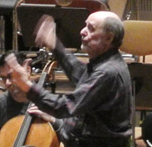 Francesco Piemontesi and Roger Norrington rehearsing with Deutsches Symphonie Orchester at Philharmonie in Berlin.